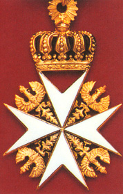 Badge of the Johanniter Orden of Germany.